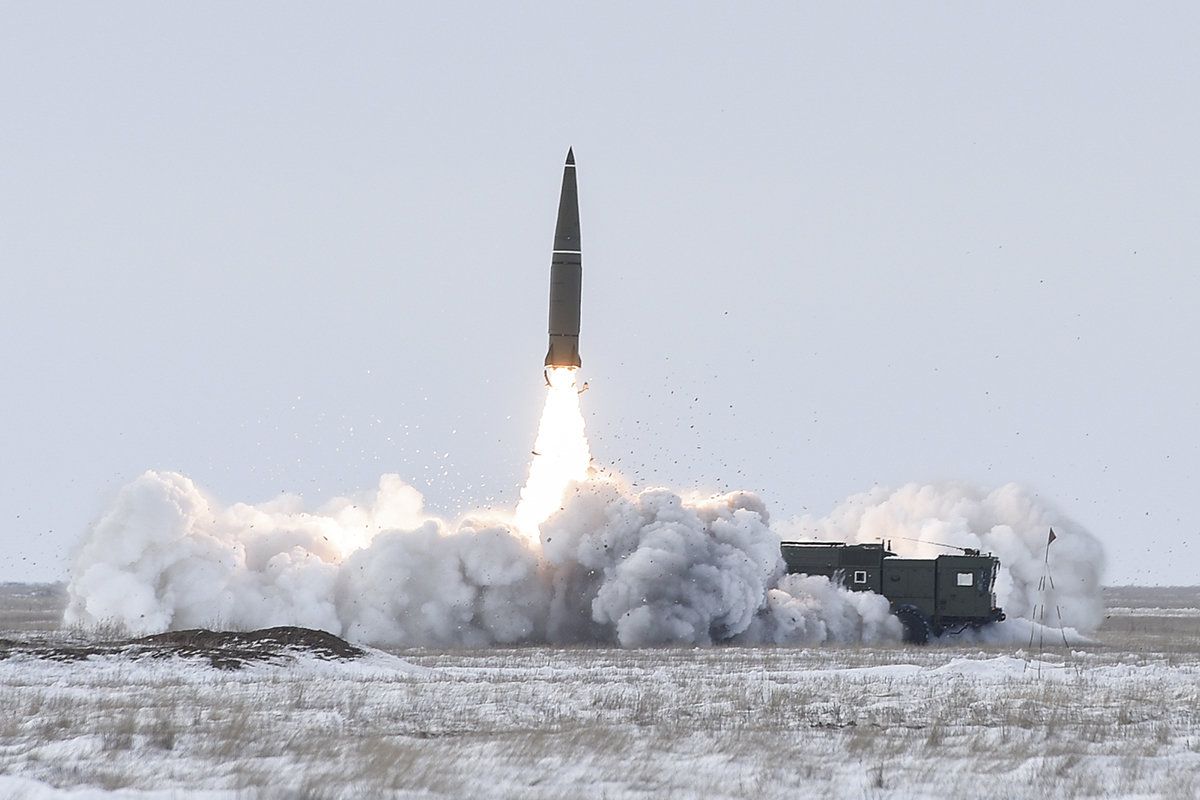 Combat launching of the Iskander-M in the Kapustin Yar proving ground.